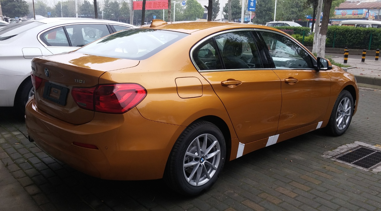 BMW 1-Series F52 photographed in Wuhan, Hubei province, China.